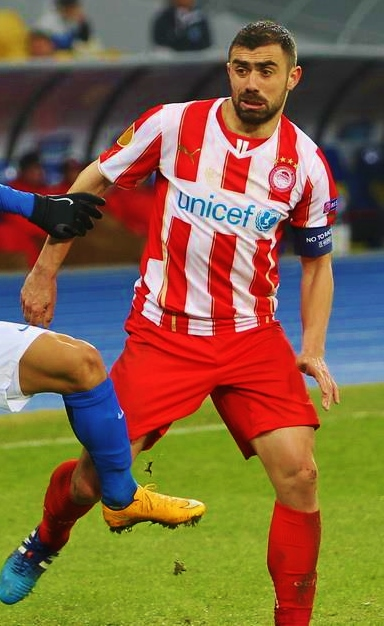 Ioannis Maniatis